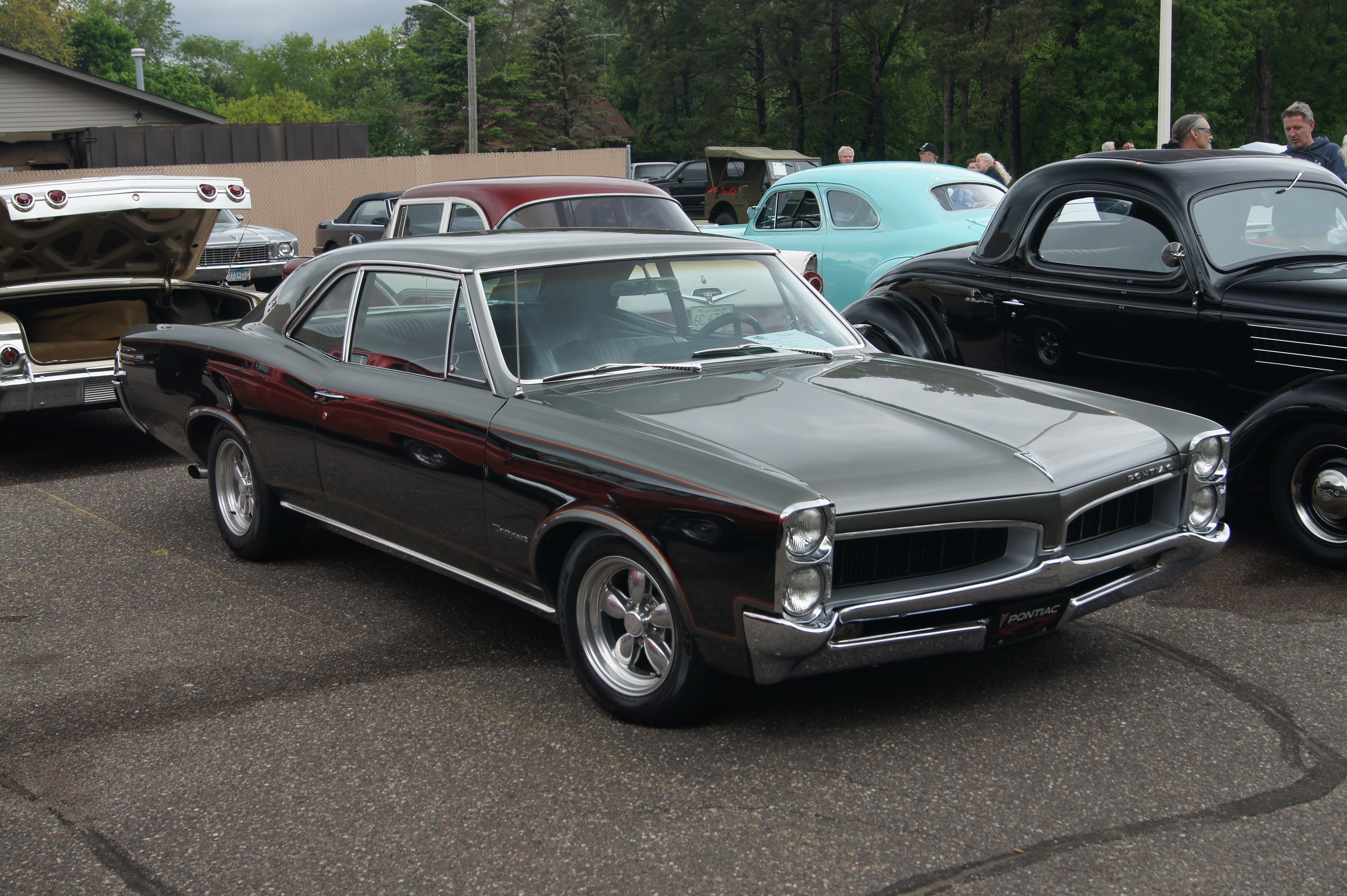 TOP 50 CAR SHOW Memorial Day 2015 Jack & Jim's Duelm, Minnesota Click here for more car pictures at my Flickr site